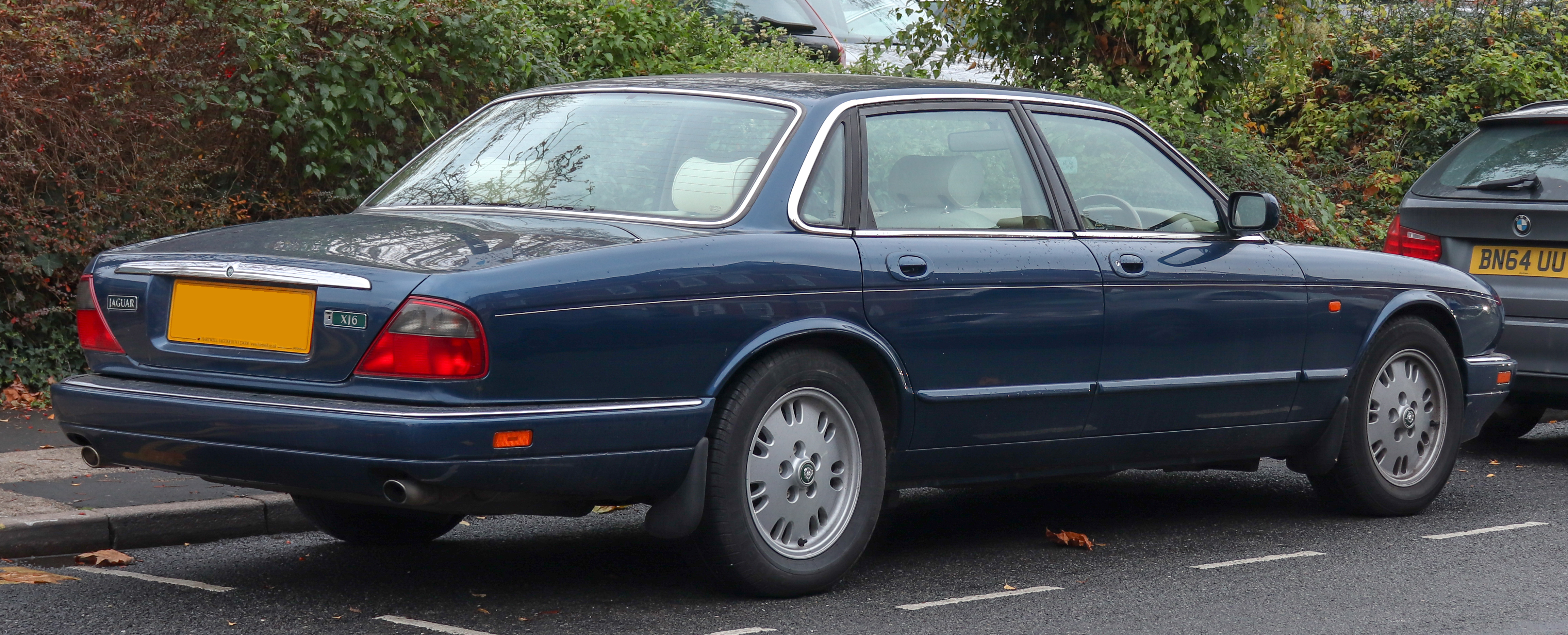 1996 Jaguar XJ6 3.2 Rear Taken in Leamington Spa